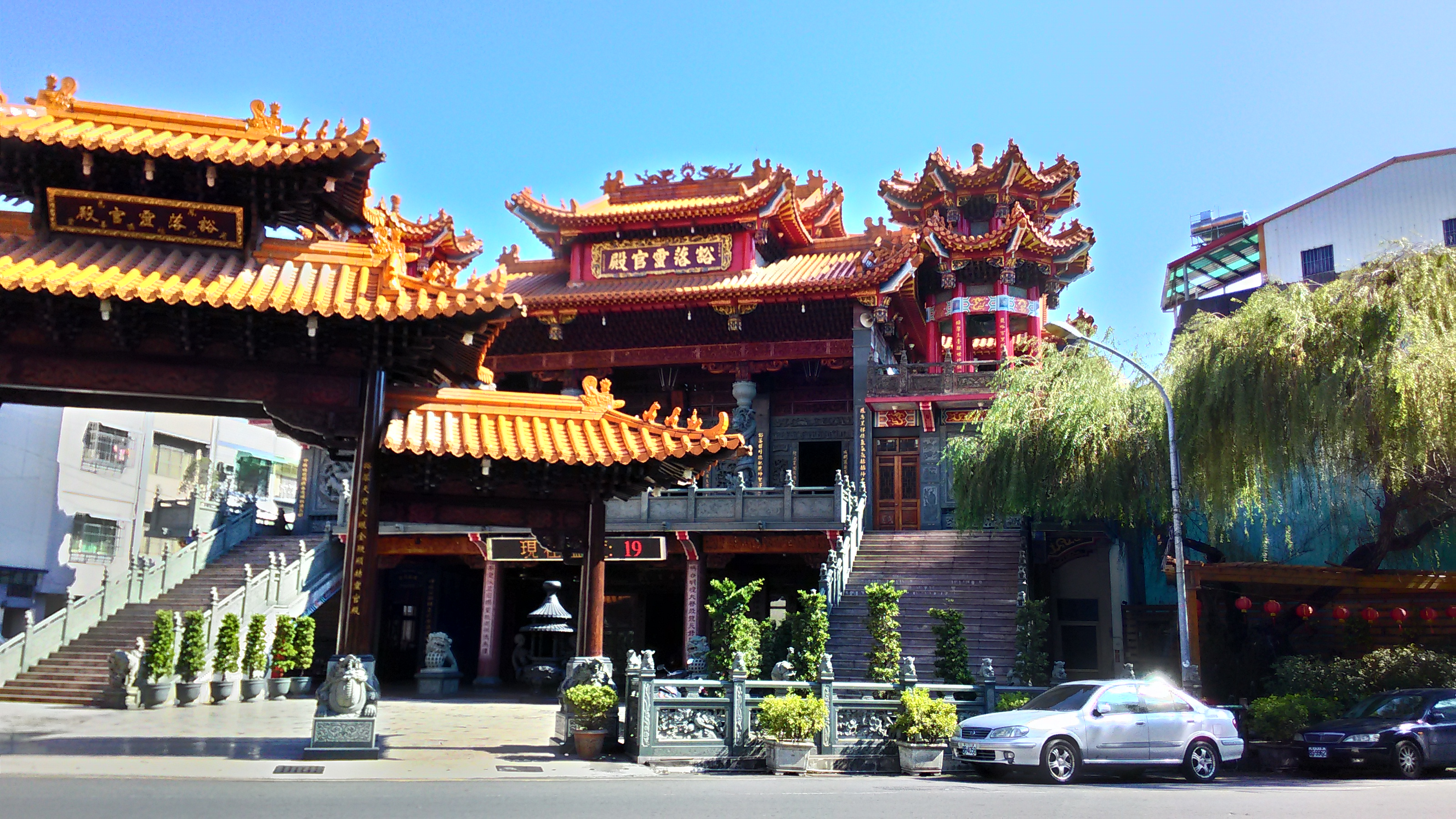 鳳邑豁落靈官殿王天君廟喚善堂全景